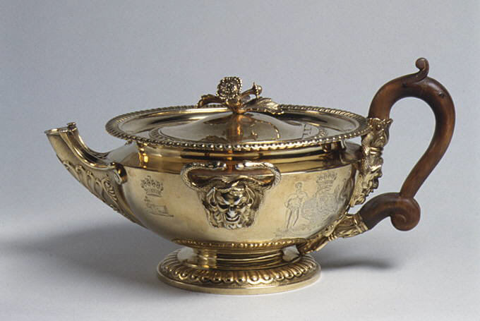 British, London; Teapot; Metalwork-Silver